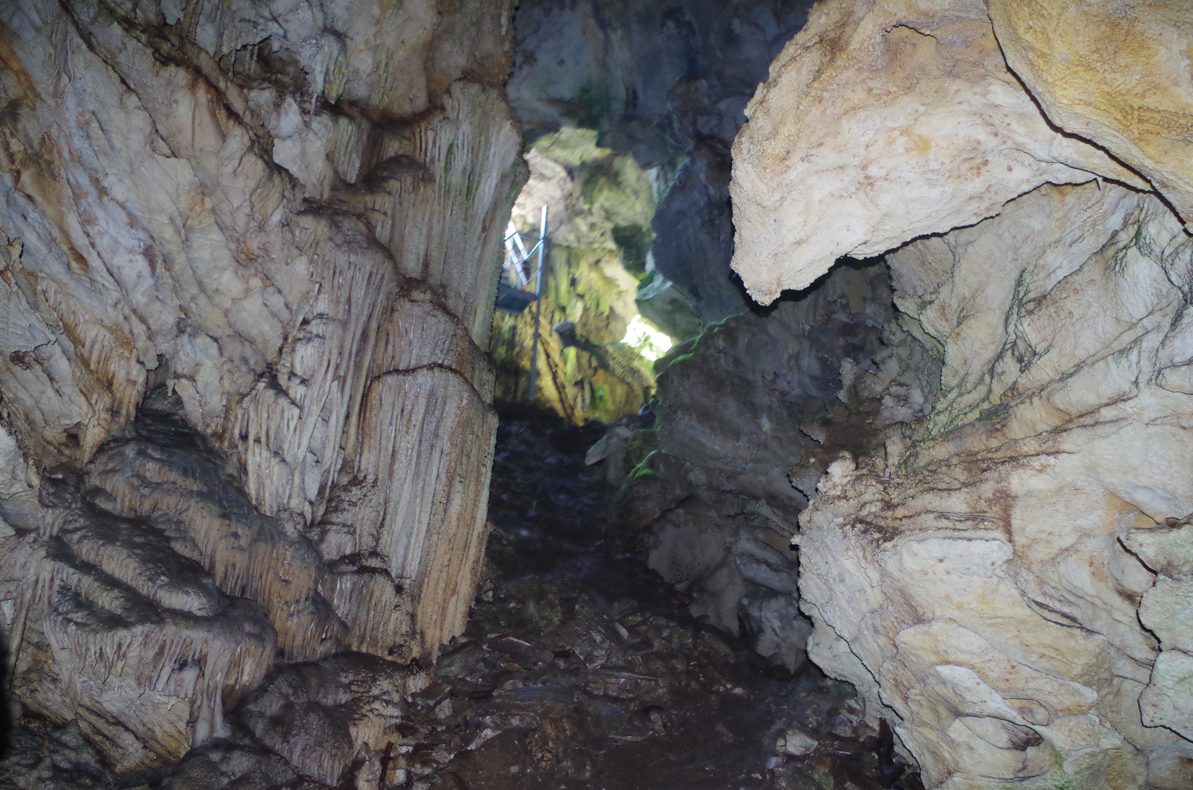 Gulabarnica cave in Porece region, Macedonia